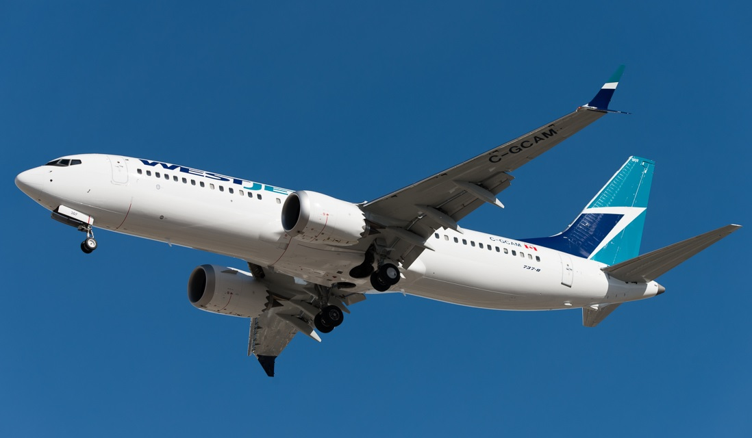 WestJet Airlines Boeing 737 MAX 8 at Calgary International Airport.